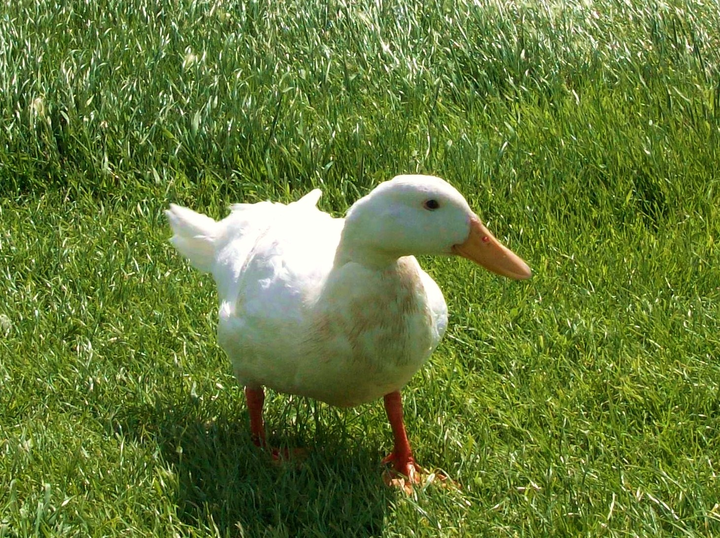 19/06/2008. One of 3 Aylesbury ducks who have made their home in the grounds of Whitby Abbey, North East England. Why only one? Have you ever tried getting three ducks to pose together?